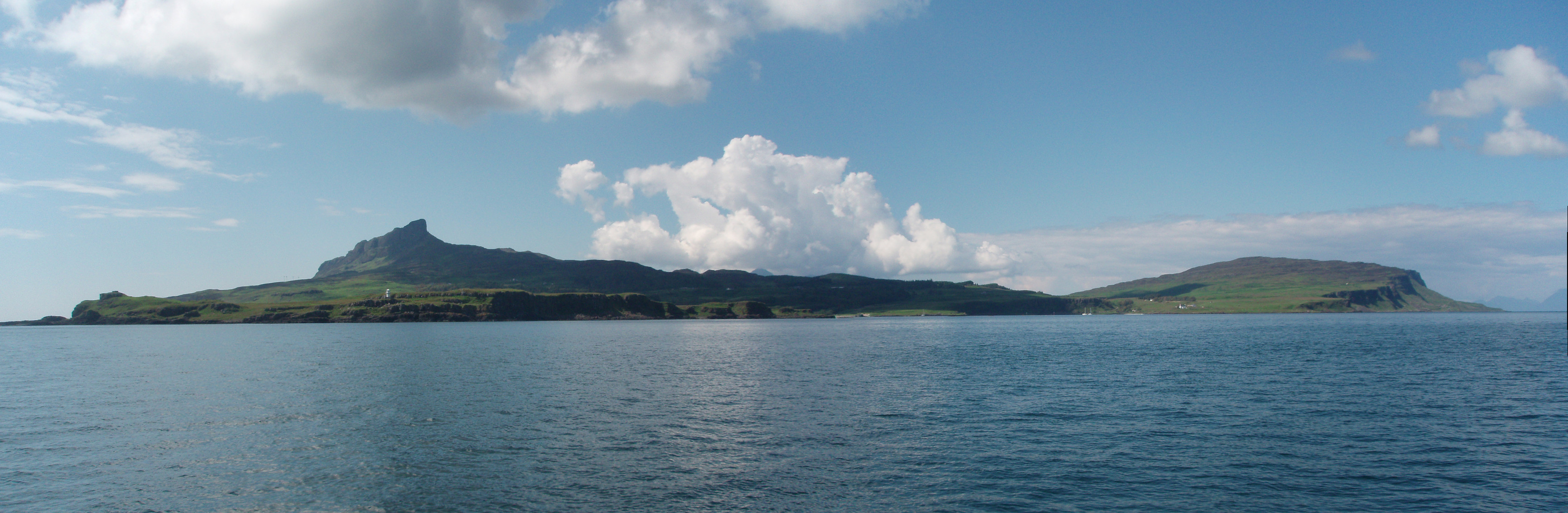 Panoramic view of the Isle of Muck, Inner Hebrides, Scotland.